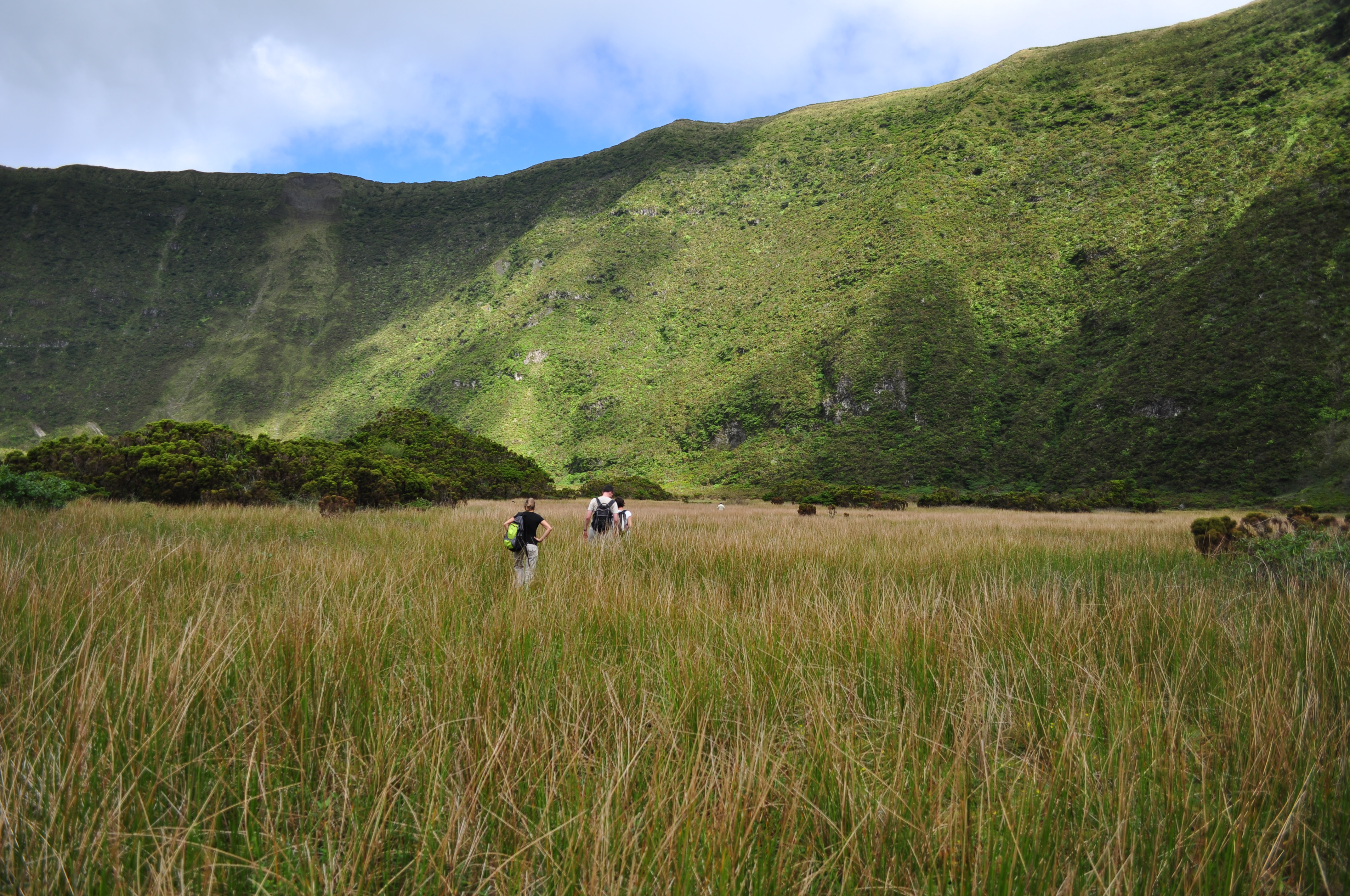 In the interior of the Caldeira of Faial